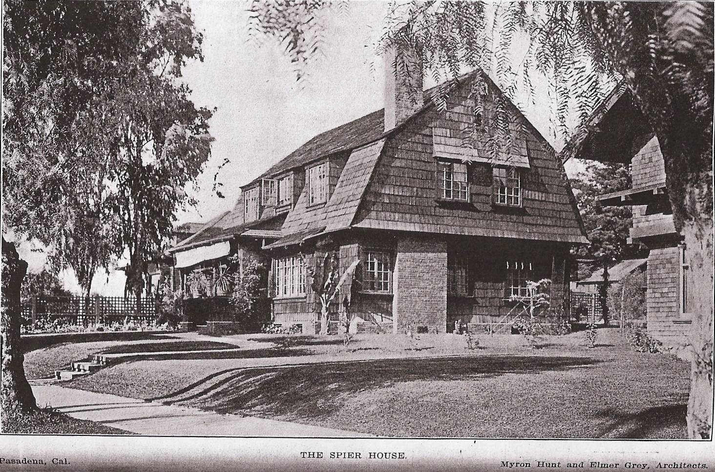 The Spier House, Pasadena, California